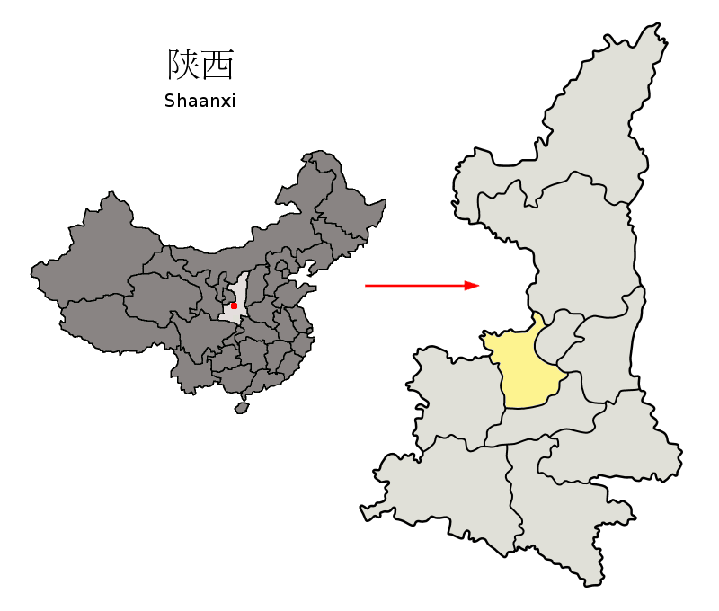 Location of Xianyang Prefecture (yellow) within Shaanxi Province of China Map drawn in december 2007 using various sources, mainly : Shaanxi Province administrative regions GIS data: 1:1M, County level, 1990 Shaanxi Counties map from